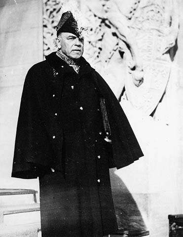 Rt. Hon. W.L. Mackenzie King arriving for the opening of the Third Session of the Eighteenth Parliament